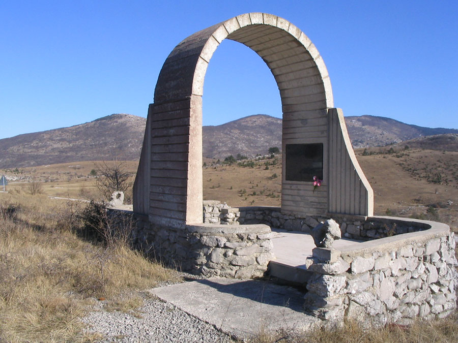 Jelovice, istra, Croatia, ww2 monument